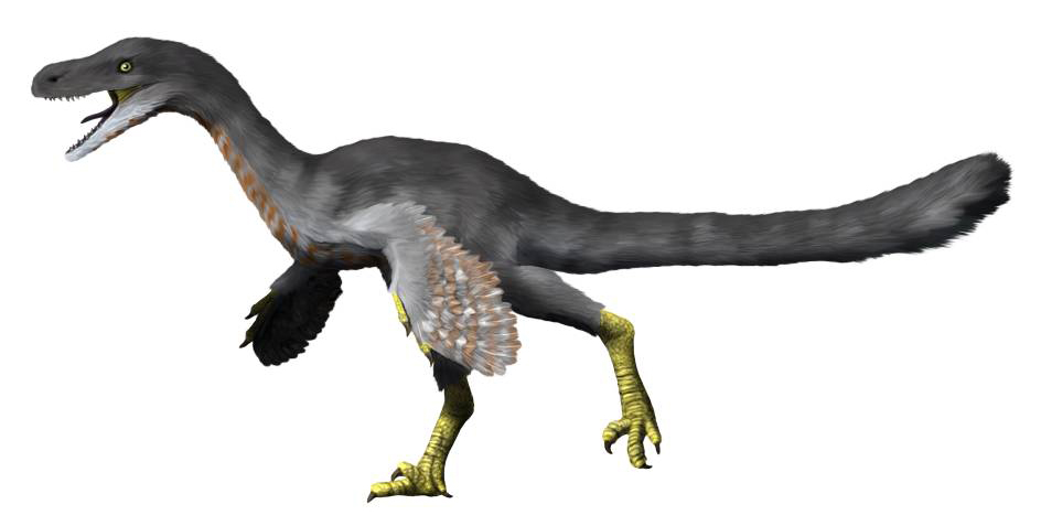 Life reconstruction of Fukuivanator paradoxus